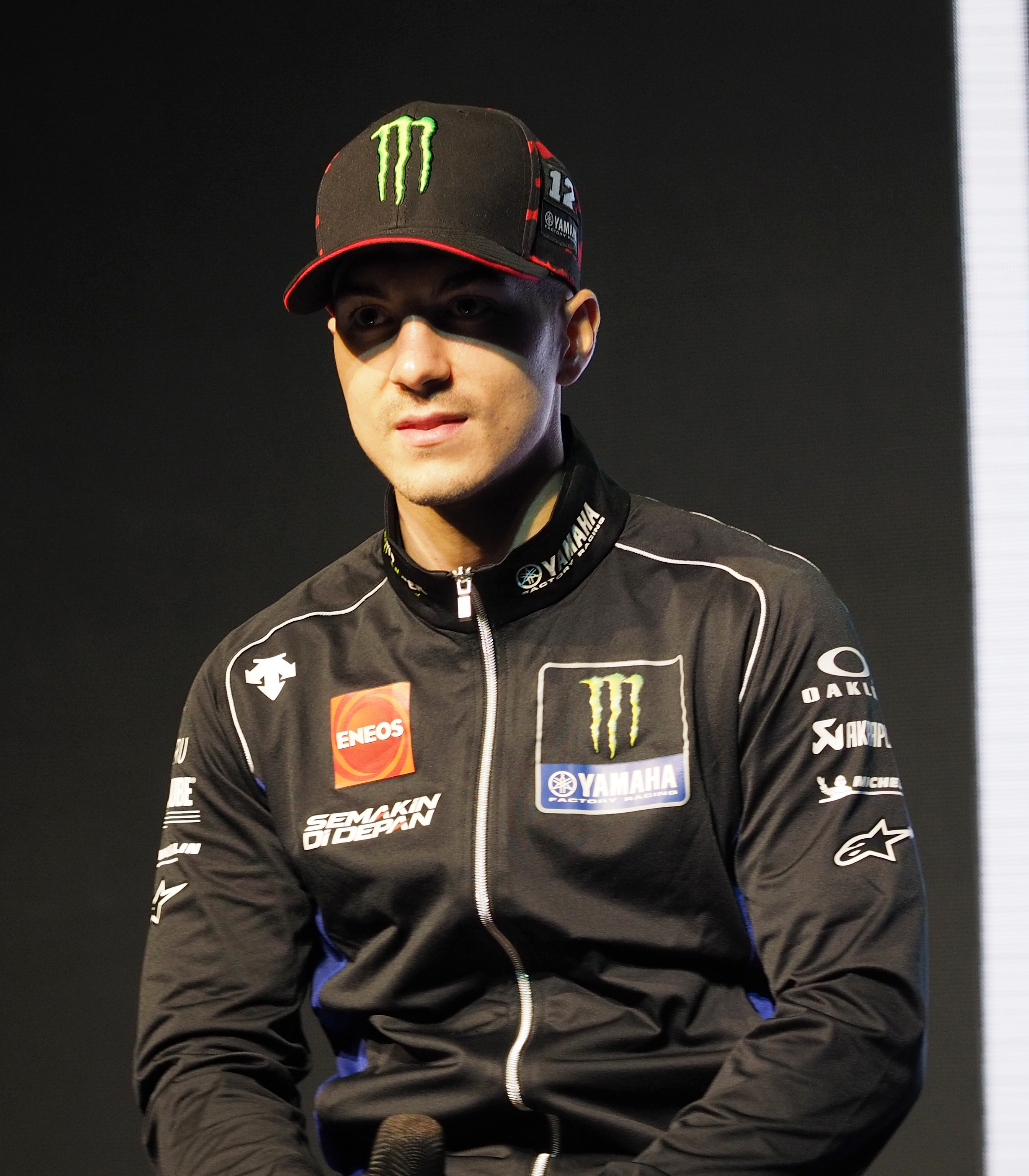 Maverick Vinales at the 2019 Monster Energy Yamaha MotoGP team launch in Jakarta, Indonesia